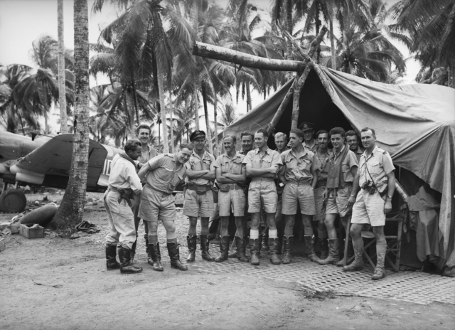 A group of Royal Australian Air Force pilots, mainly from No. 76 Squadron, at Milne Bay in September 1942